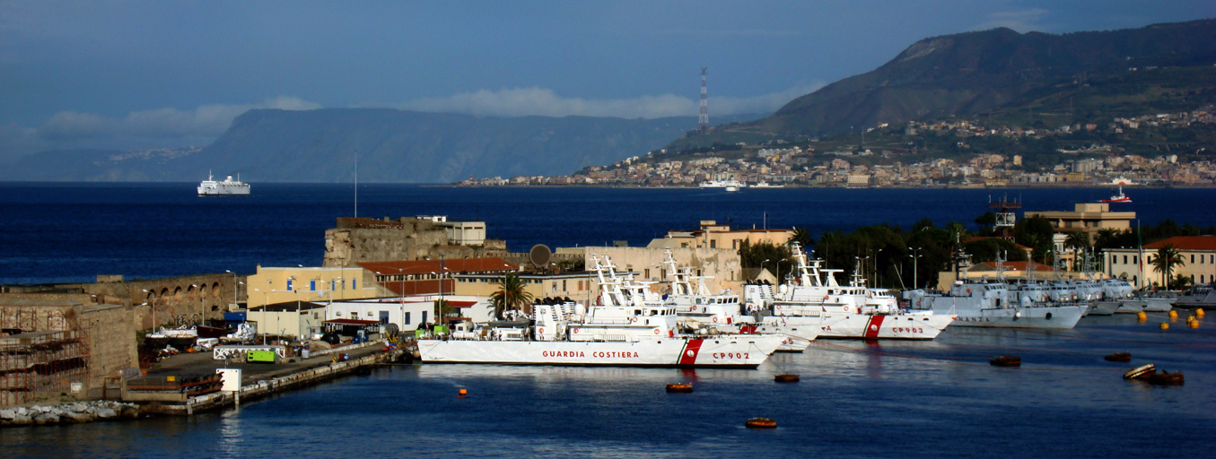 View from the harbor at Messina across the straits.